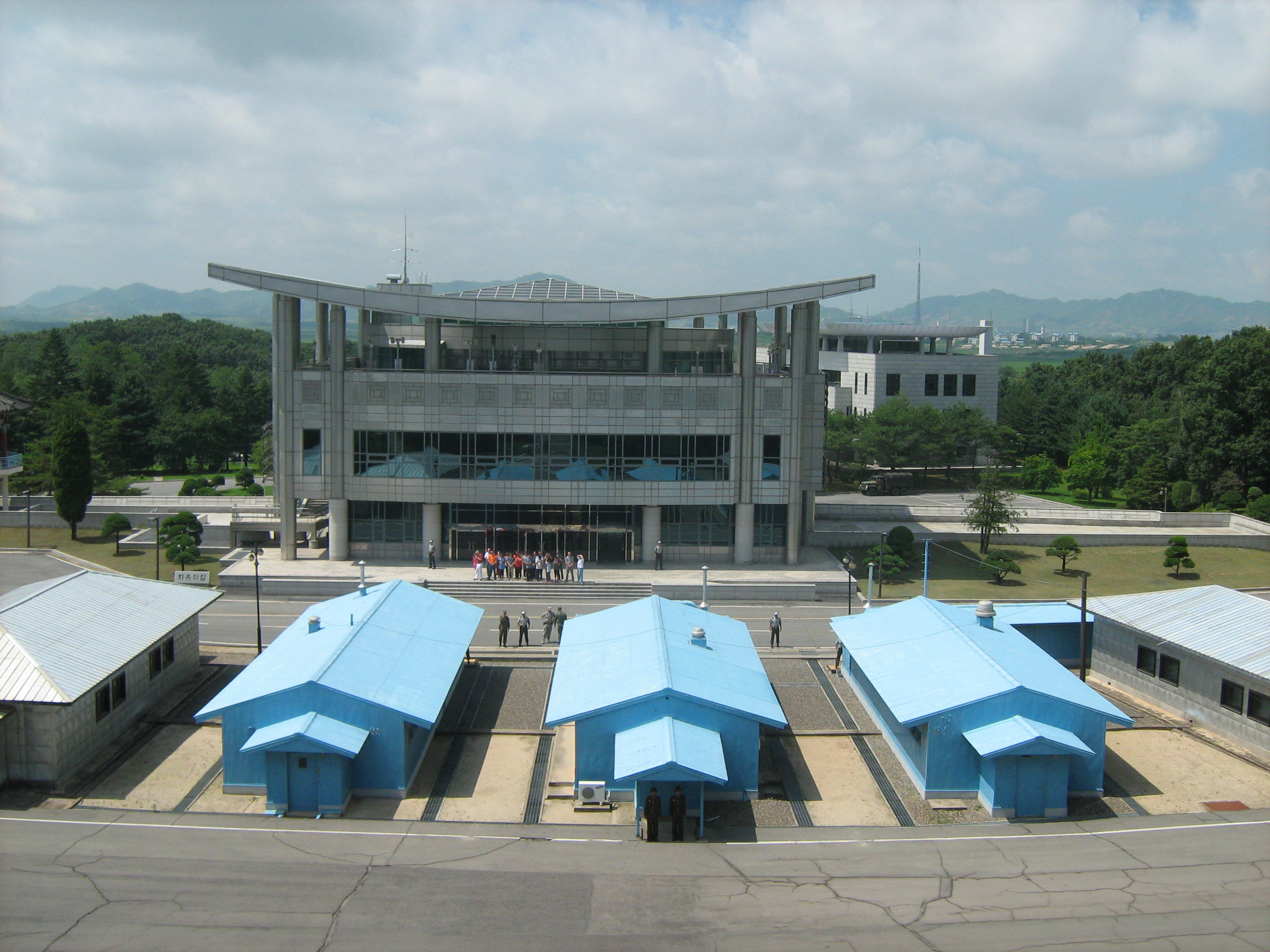 This shows the Conference Row in the Joint Security Area of the Korean Demilitarized Zone, looking into South Korea from North Korea. It shows guards on both sides and a group of tourists in the South.